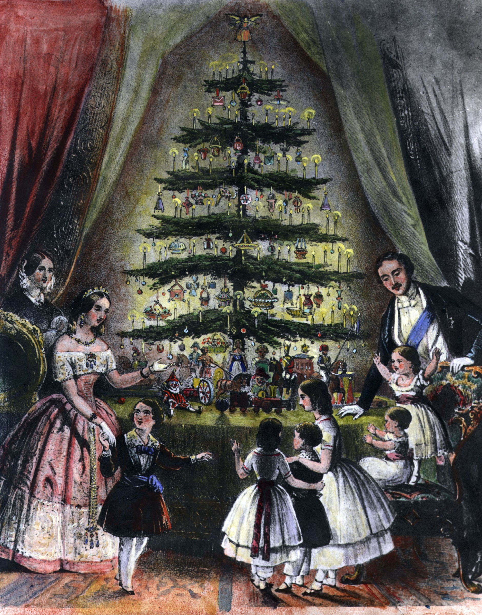 The royal Christmas tree is admired by Queen Victoria, Prince Albert and their children, December 1848. A Christmas tradition stemming from Saturnalia was the Christmas tree: During the winter solstice, branches served as a reminder of spring - and became the root of our Christmas tree. The Germans are credited with first bringing evergreens into their homes and decorating them, a tradition which made it's way to the United States in the 1830s. But it wasn't until Germany's Prince Albert introduced the tree to his new wife, England's Queen Victoria, that the tradition took off. The couple were sketched in front of a Christmas tree in 1848 - and royal fever did its work.